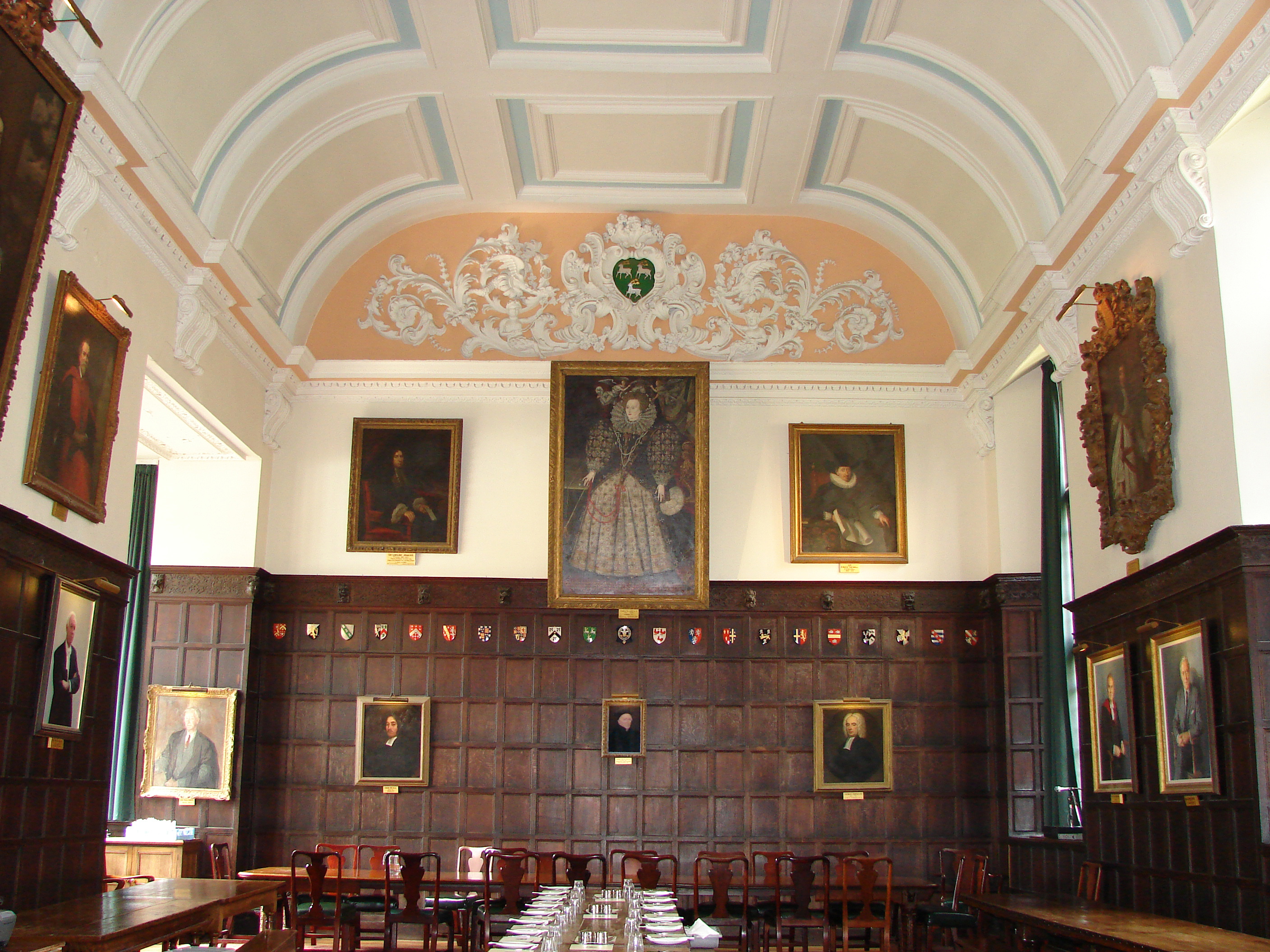 Hall of Jesus College Oxford in 2009. Merge of File:Jesus College Oxford Hall v1 2009.jpg and File:Jesus College Oxford Hall v2 2009.jpg, keeping best features of both.